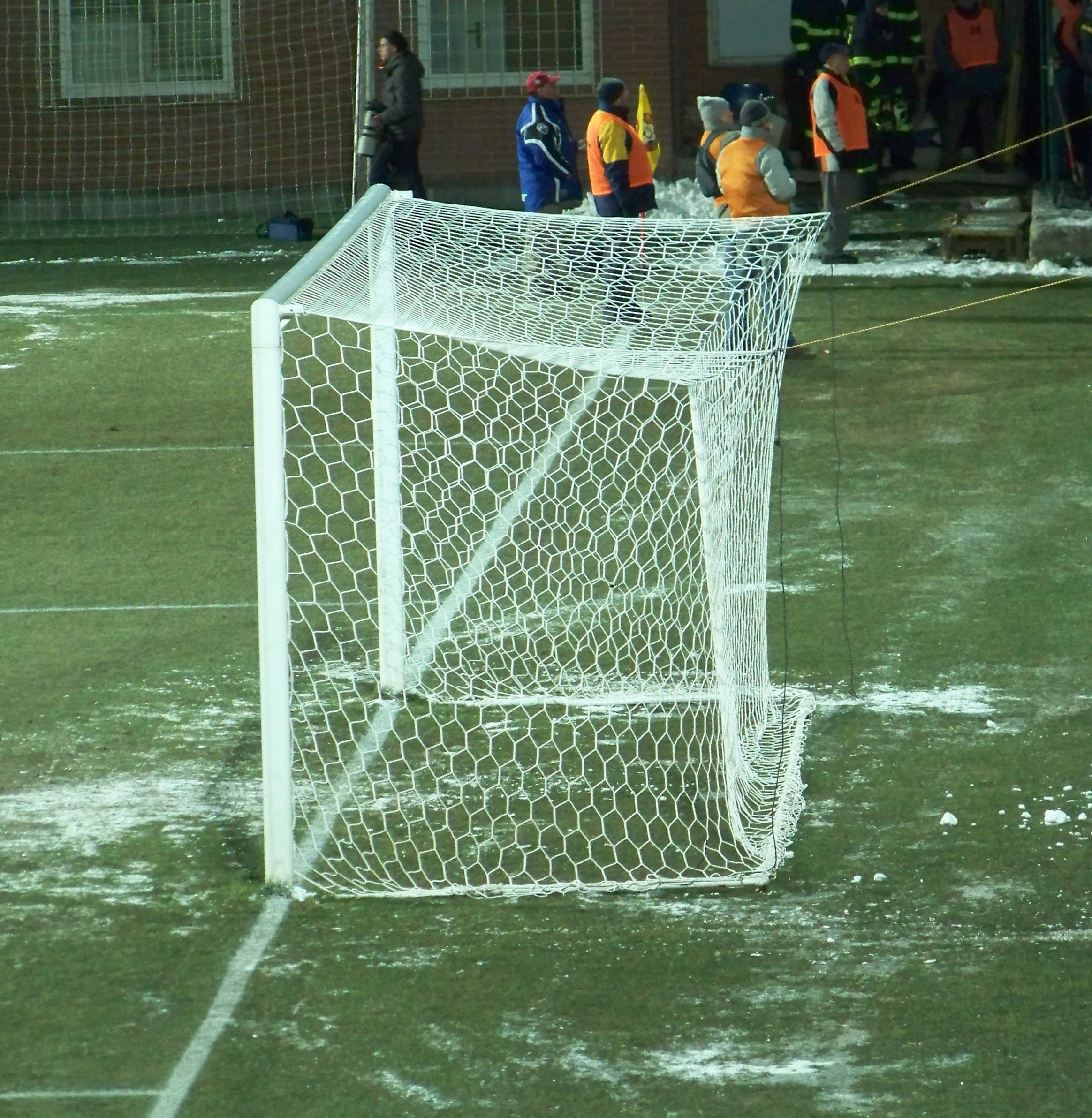 Goal by the north stand of Letná Stadium in Zlín